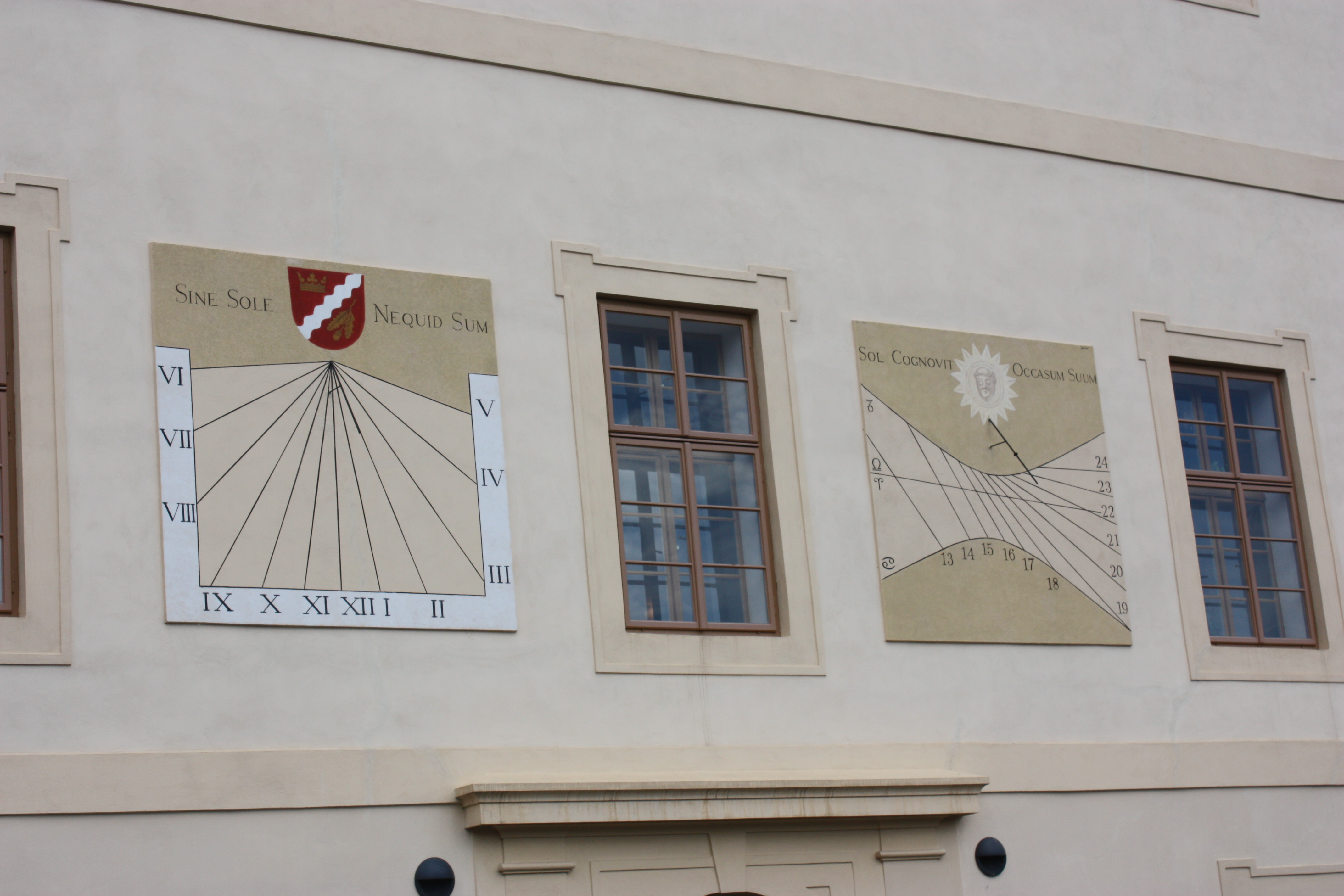 Sundial on castle in Nižbor